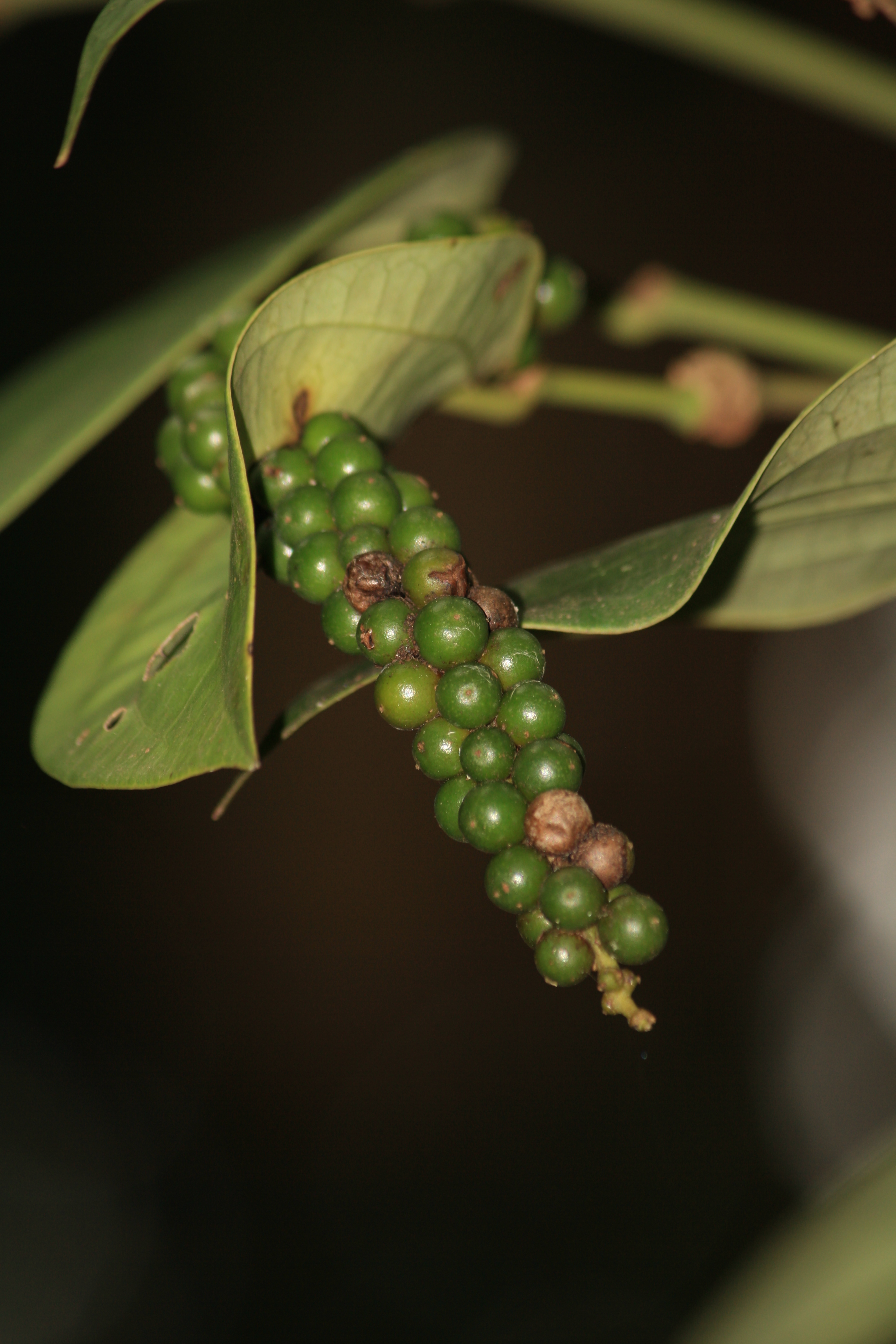 Black Pepper